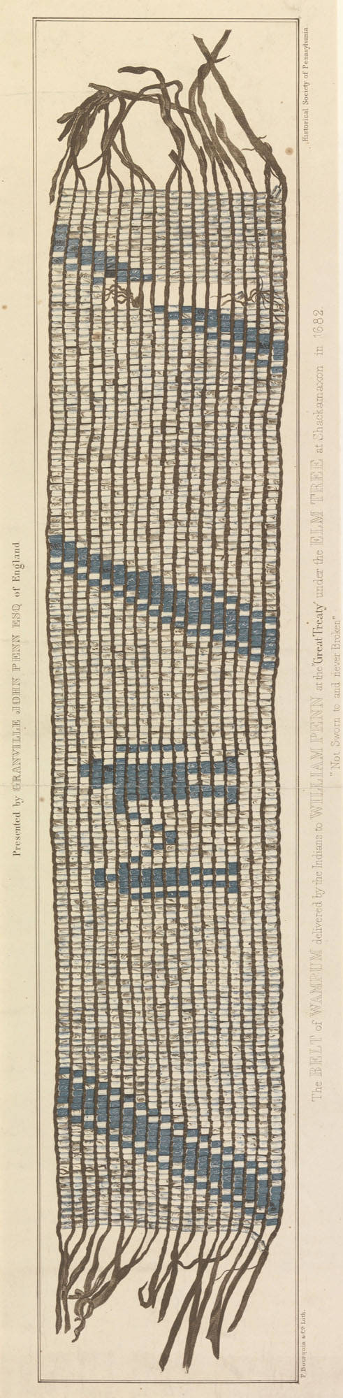 The belt of wampum delivered by the Indians to William Penn at the "Great Treaty" under the Elm Tree at Shackamoxon in 1682. "Not Sworn to and never Broken." : Presented by Granville John Penn Esq. of England / F. Bourquin & Co., lith.